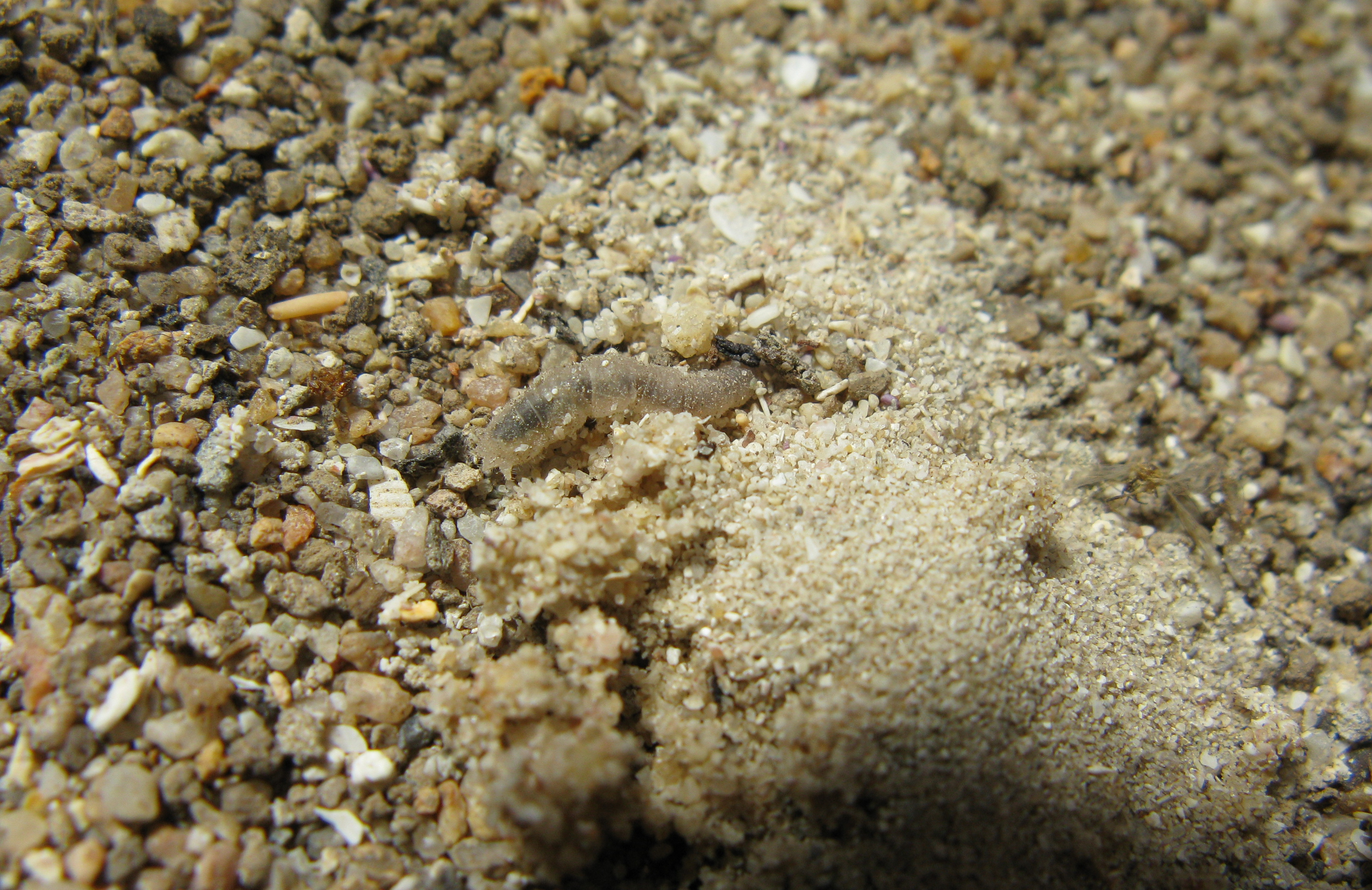 Wormlion fly larva, Leptynoma sericea, removed from its pit, begins to bury itself in the sand again